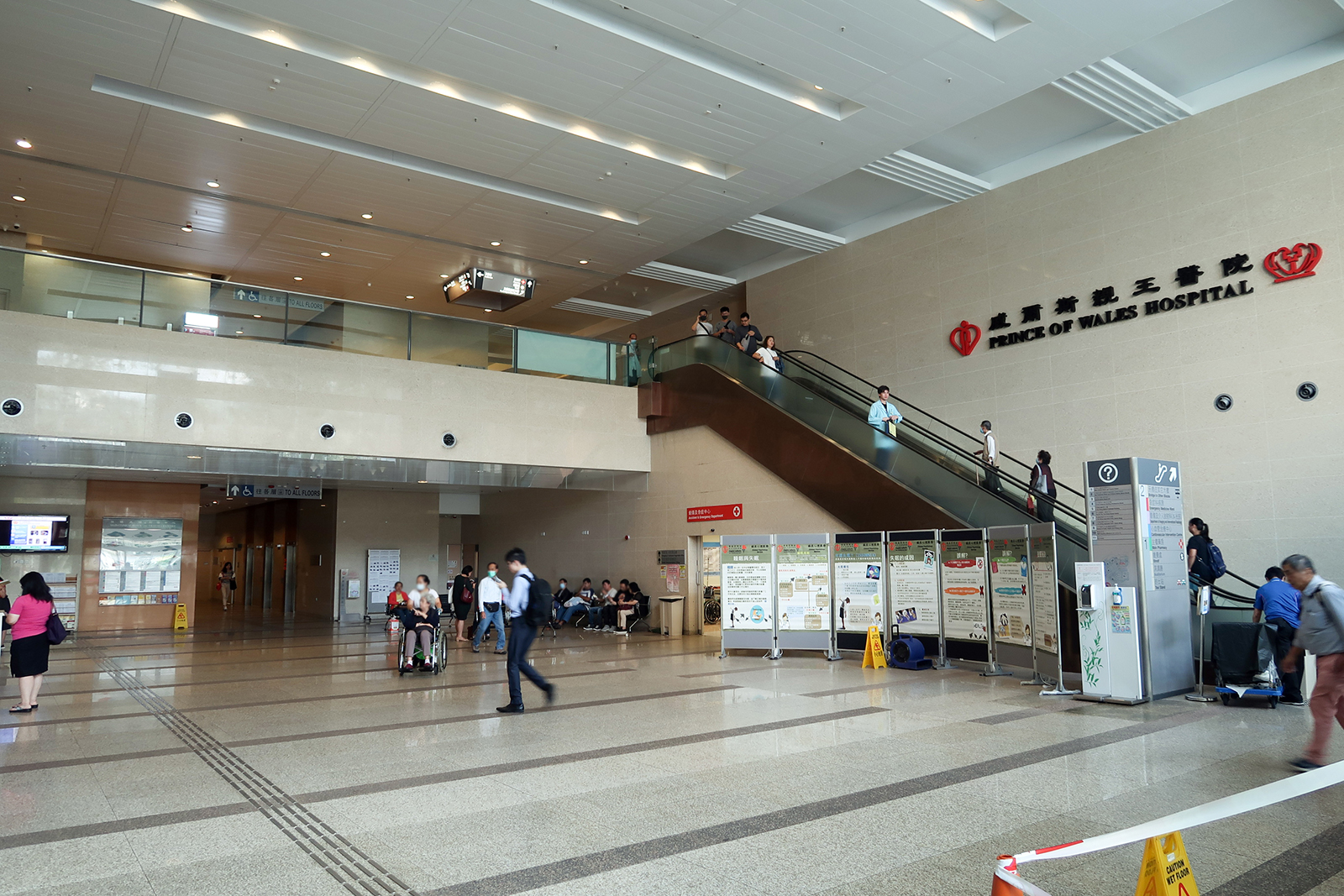 PWH Main Clinical Block and Trauma Centre Lobby